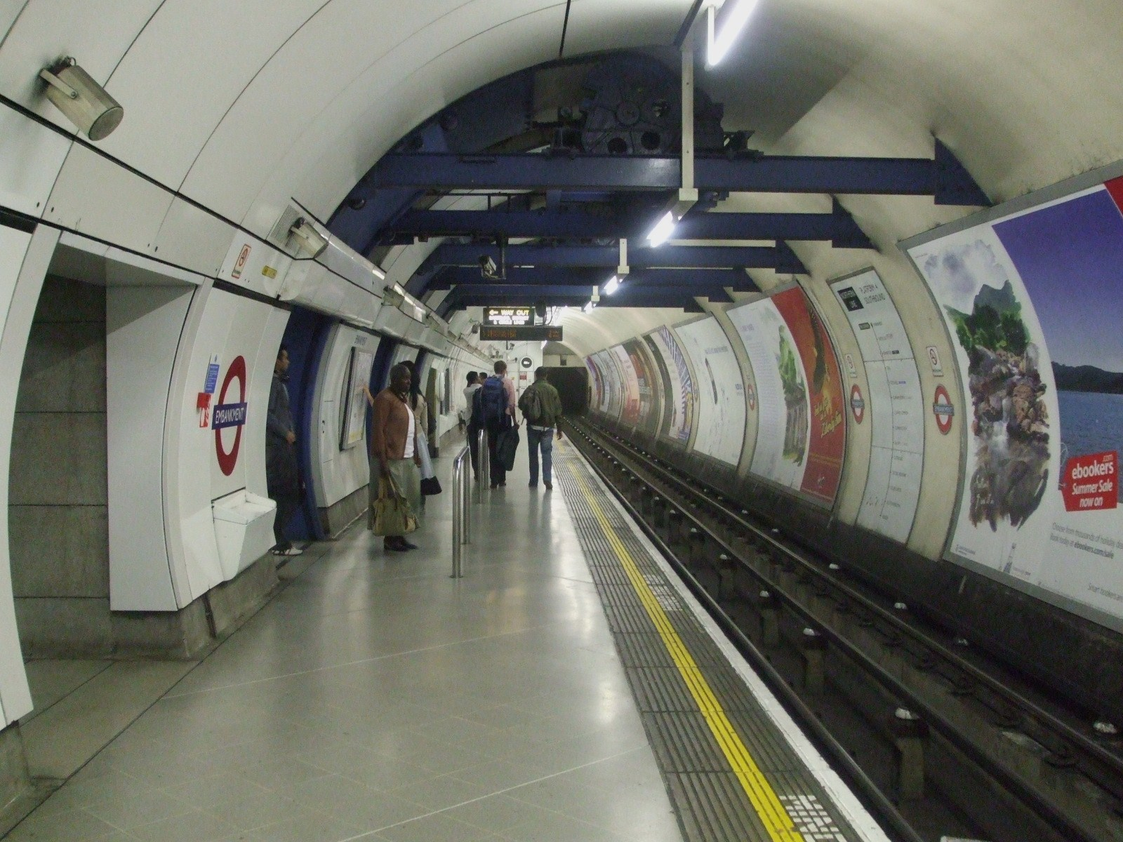 Embankment tube station Northern line southbound platform looking north